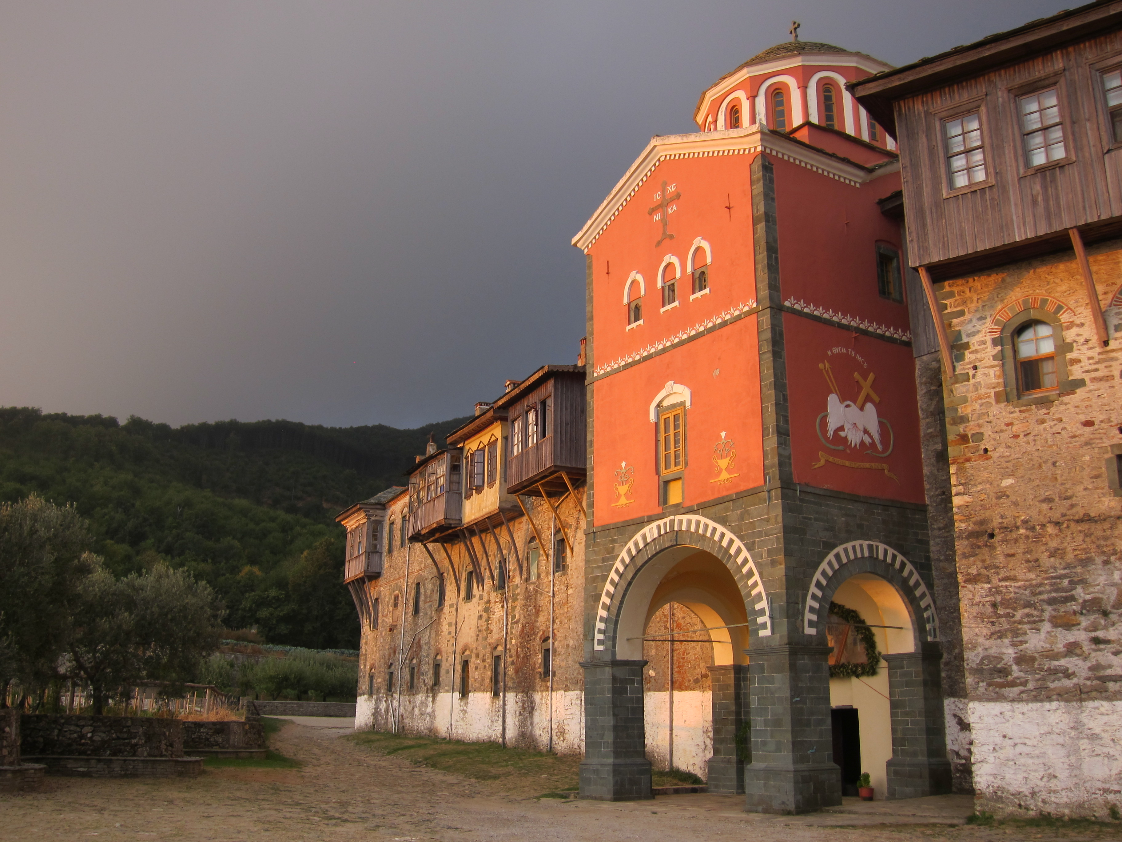 Philotheou monastery at dawn.